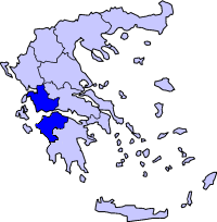 Locator map for 'West' Greek Periphery. Map of Greek periphery. This map did not include the prefecture of Ilia, I fixed that. Markussep